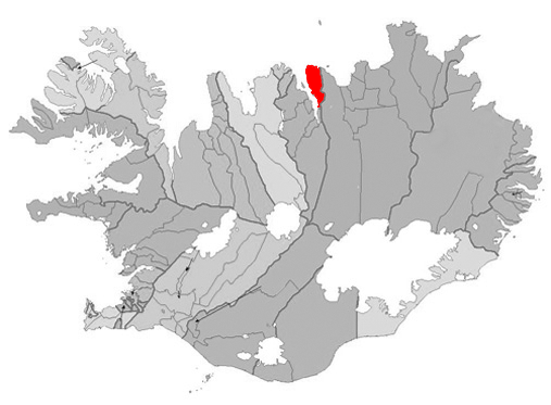 Based on Municipalities of Iceland.png.